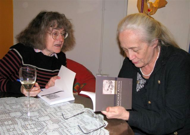 Ewa Bieńkowska (b. September 13, 1943 in Warsaw, Poland) - Polish writer, essayist, publicist and translator and Maria Braunstein (b. May 28, 1942), Polish translator and editor.